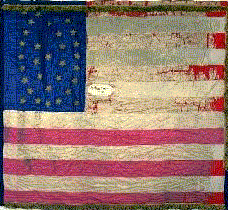 The national flag carried by the 28th Regiment, US Colored Troops, organized in Indianapolis, Indiana, to fight in the U.S. Civil War. Organized Dec. 24, 1863. Mustered out November 8, 1865. The source is an agency of the government: -- Indiana War Memorial Battle Flag Collection. Dictioneer (talk) 23:14, 5 June 2013 (UTC)